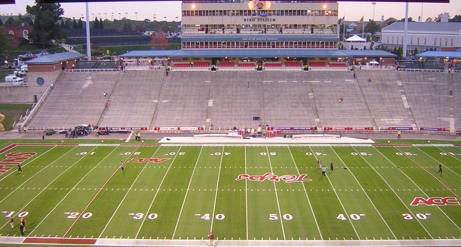 Byrd Stadium (en) prior to the 2005 Virginia Tech @ Maryland game